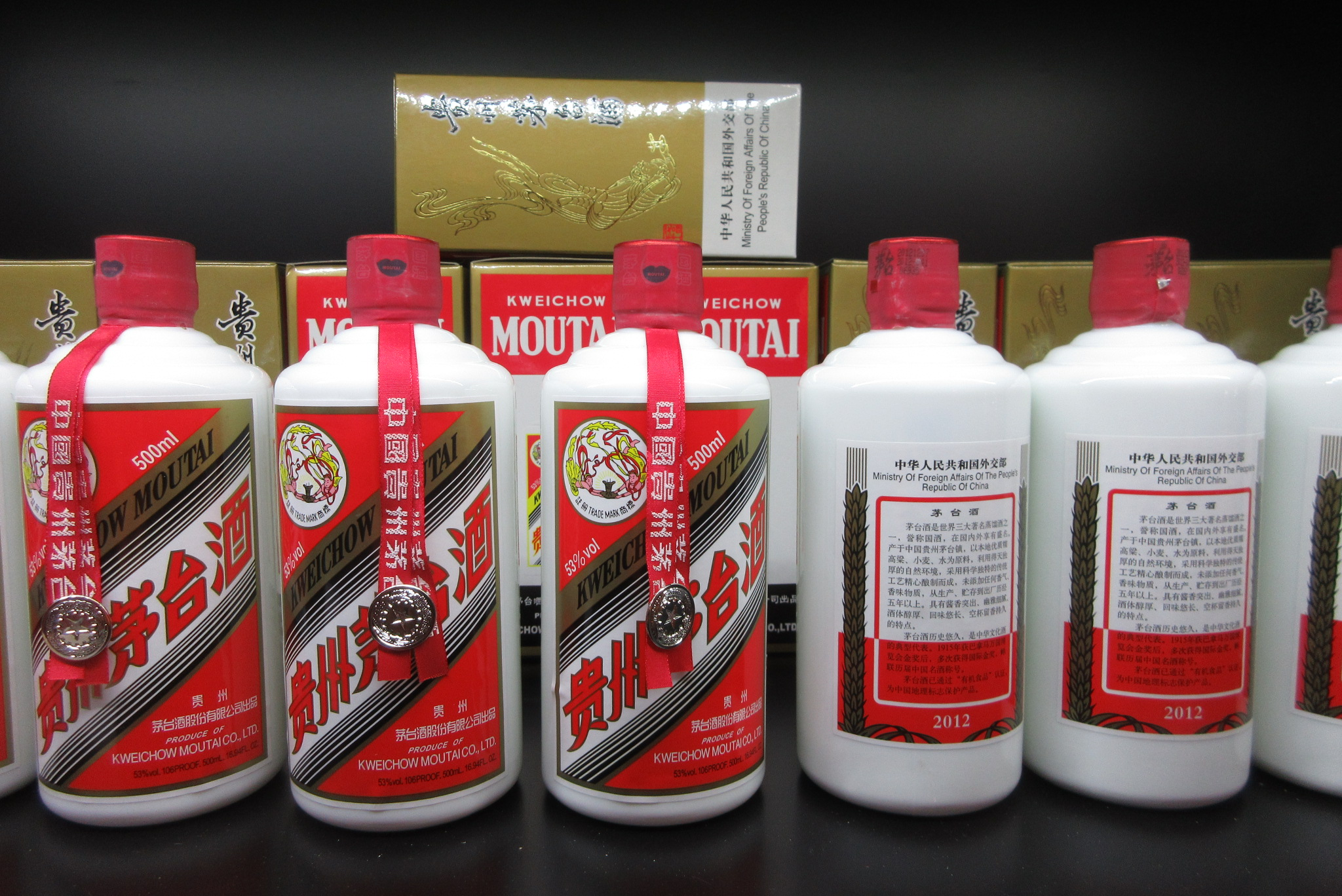 HK Wan Chai North 君悅酒店 Grand Hyatt Hotel 保利集團 Poly Auction Preview exhibition in September 2017